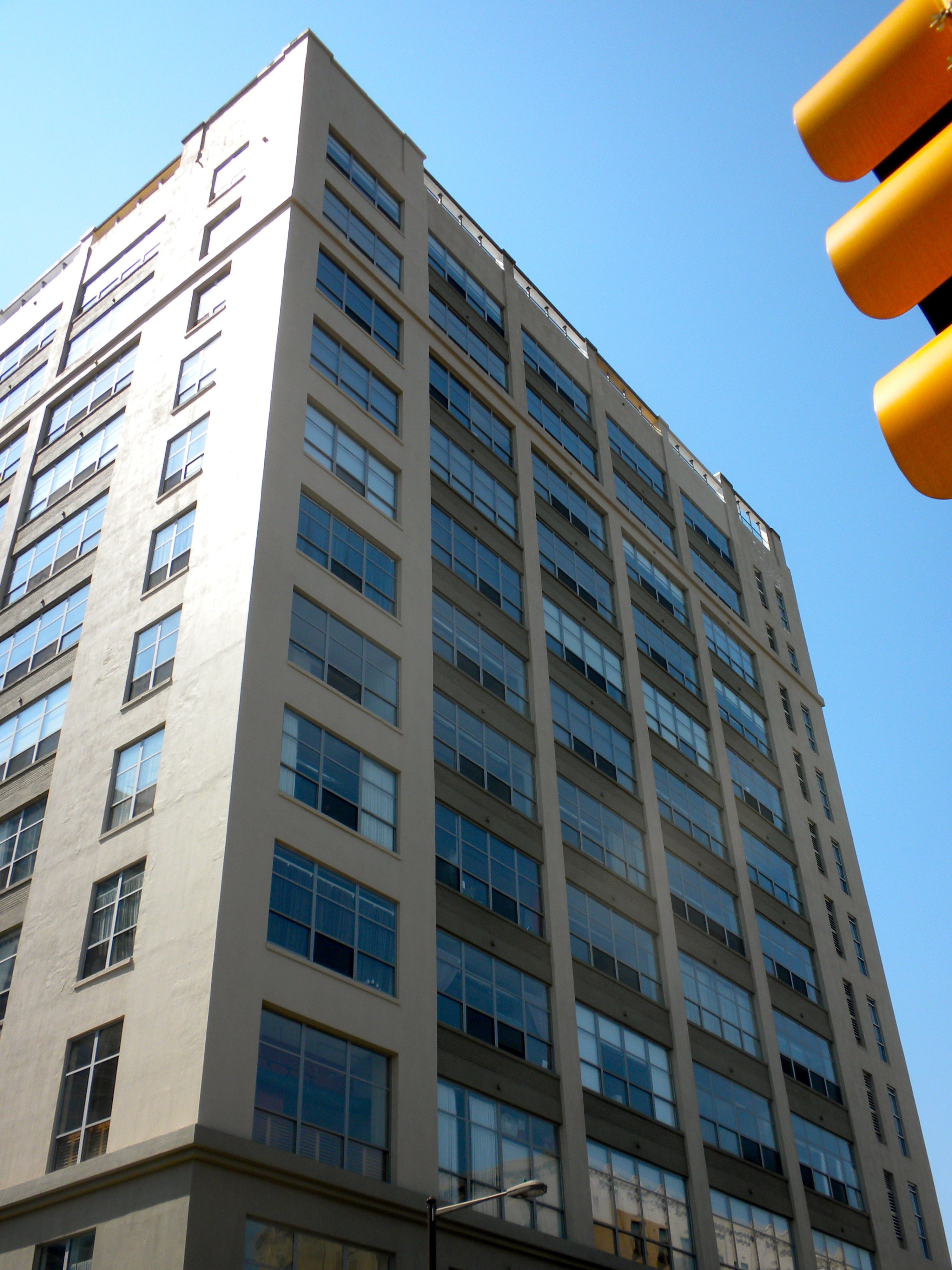 Larkin-Belber Building on NRHP since February 27, 2003. At 2200–2218 Arch Street in Logan Square neighborhood of Philadelphia. Industrial / Warehouse building, not beautiful by any means, but well adapted for its use, now adapted to offices.